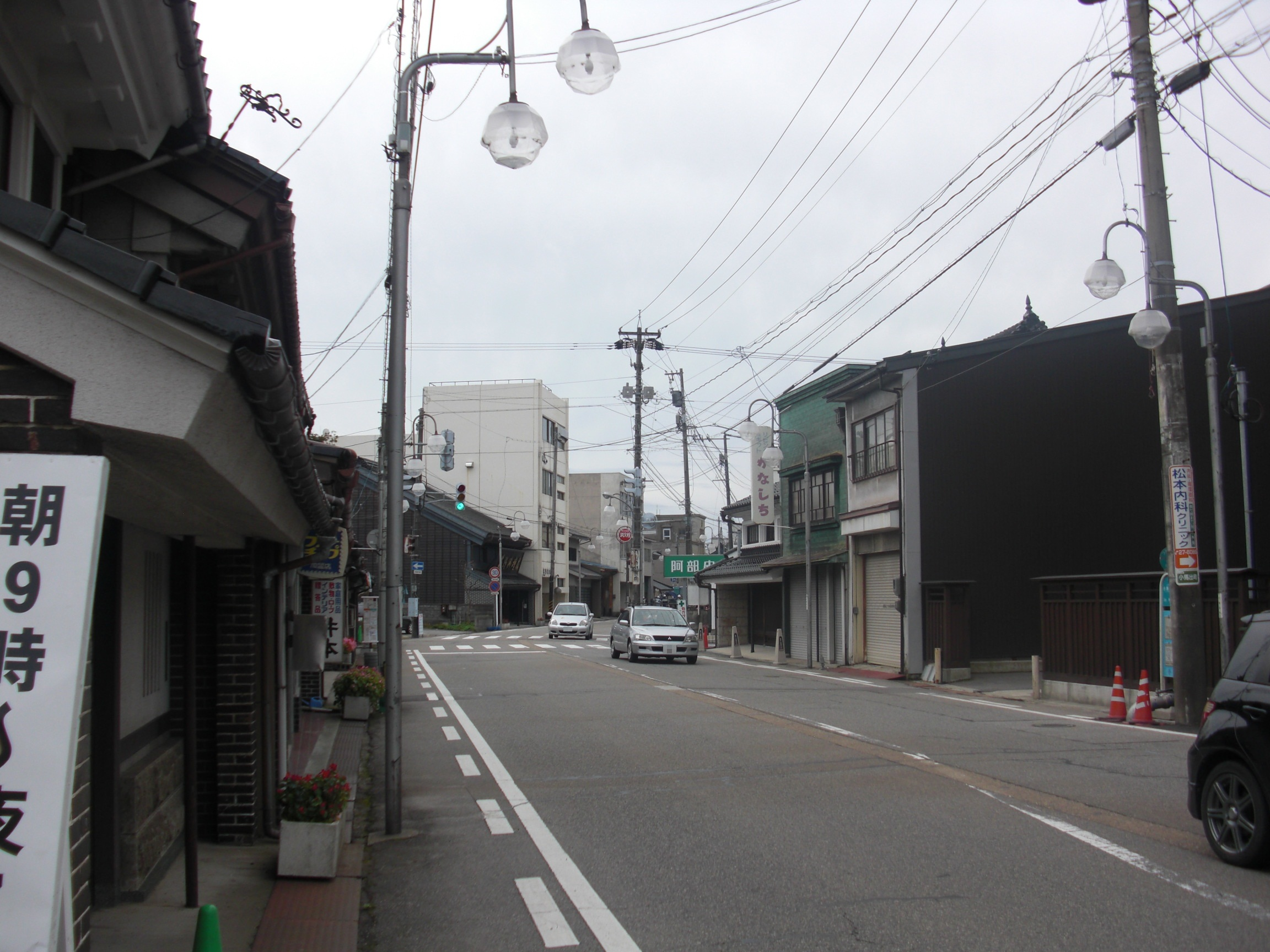 This is the Yamacho street in Takaoka, Toyama, Japan.